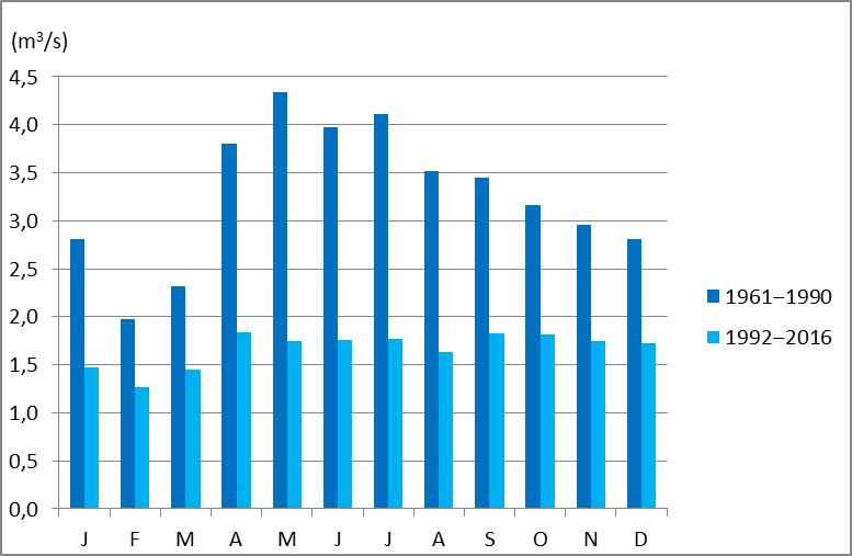 Average monthly discharges of Bistrica River at the gauging station Muta in 1961–1990 and 1992–2016